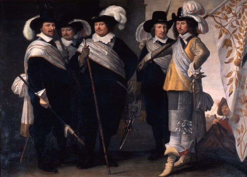 Group portrait of the officers of the Civic guard called the "Witte Vendel" (white flag), in Delft. A repaired version in 1648 by the grandson of the original maker. The original was damaged in the Delft explosion of 1654. From left to right: lieutenant Maerten Engelbertsz. Graswinckel; sergeant Samuel Claesz. Berckel; captain Carel Leenertsz. de Vooght; sergeant Willem Claesz. van Assendelft; flag bearer Pieter Harmensz. van Ruyven. This image is available from the Netherlands Institute for Art Historyunder digital ID 150257. This tag does not indicate the copyright status of the attached work. A normal copyright tag is still required. See Commons:Licensing.